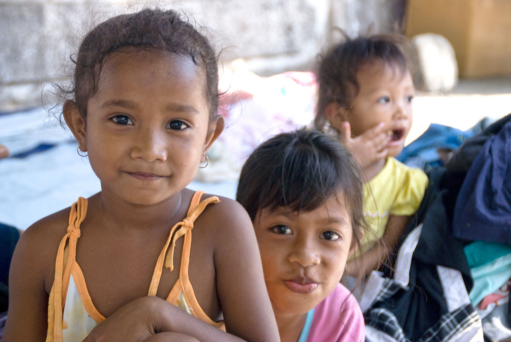 Dili market children, East Timor.